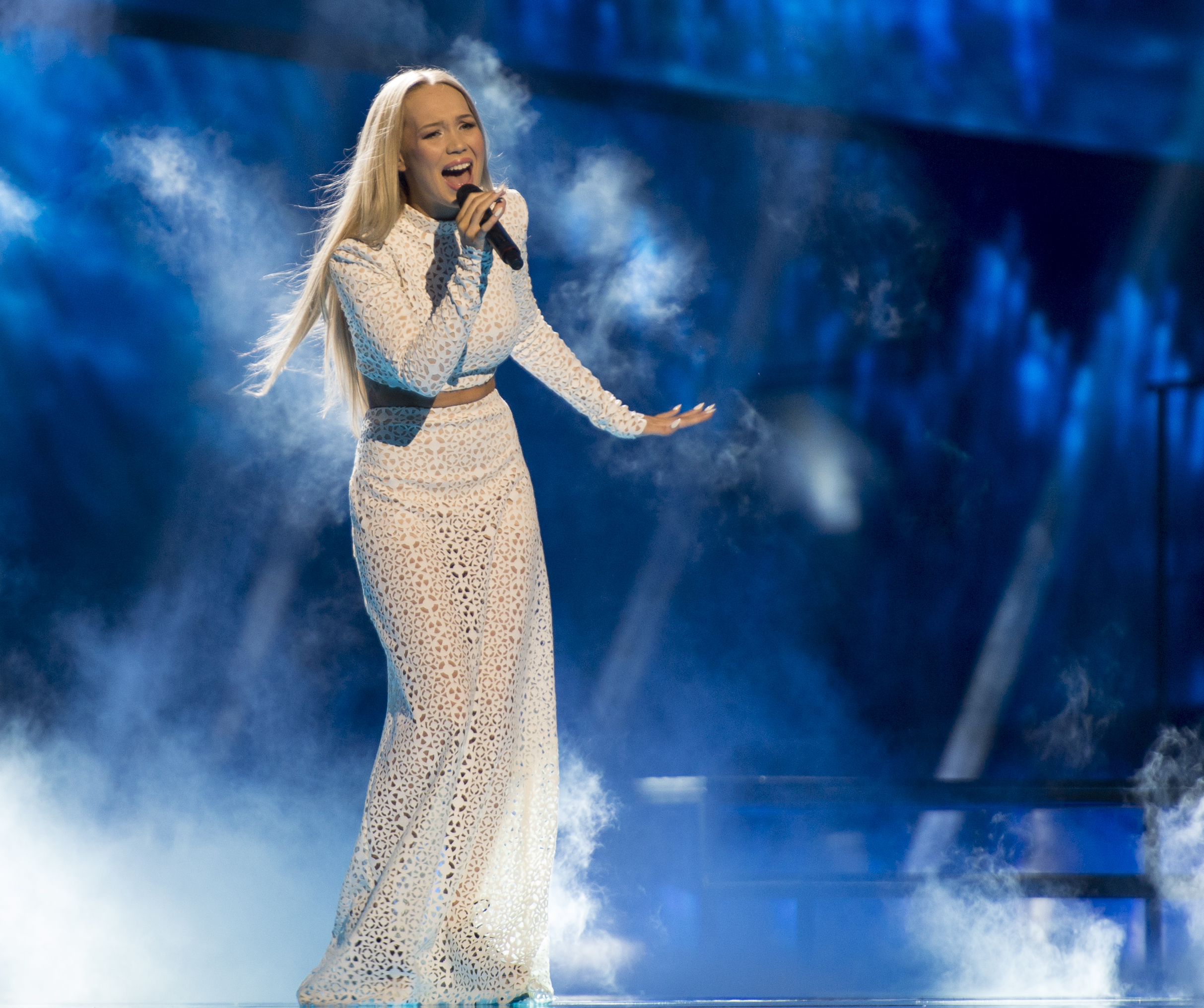 Agnete representing Norway with the song "Icebreaker" during the first dress rehearsal of the second semi final of the Eurovision Song Contest 2016 in Stockholm. (Help translate this text)